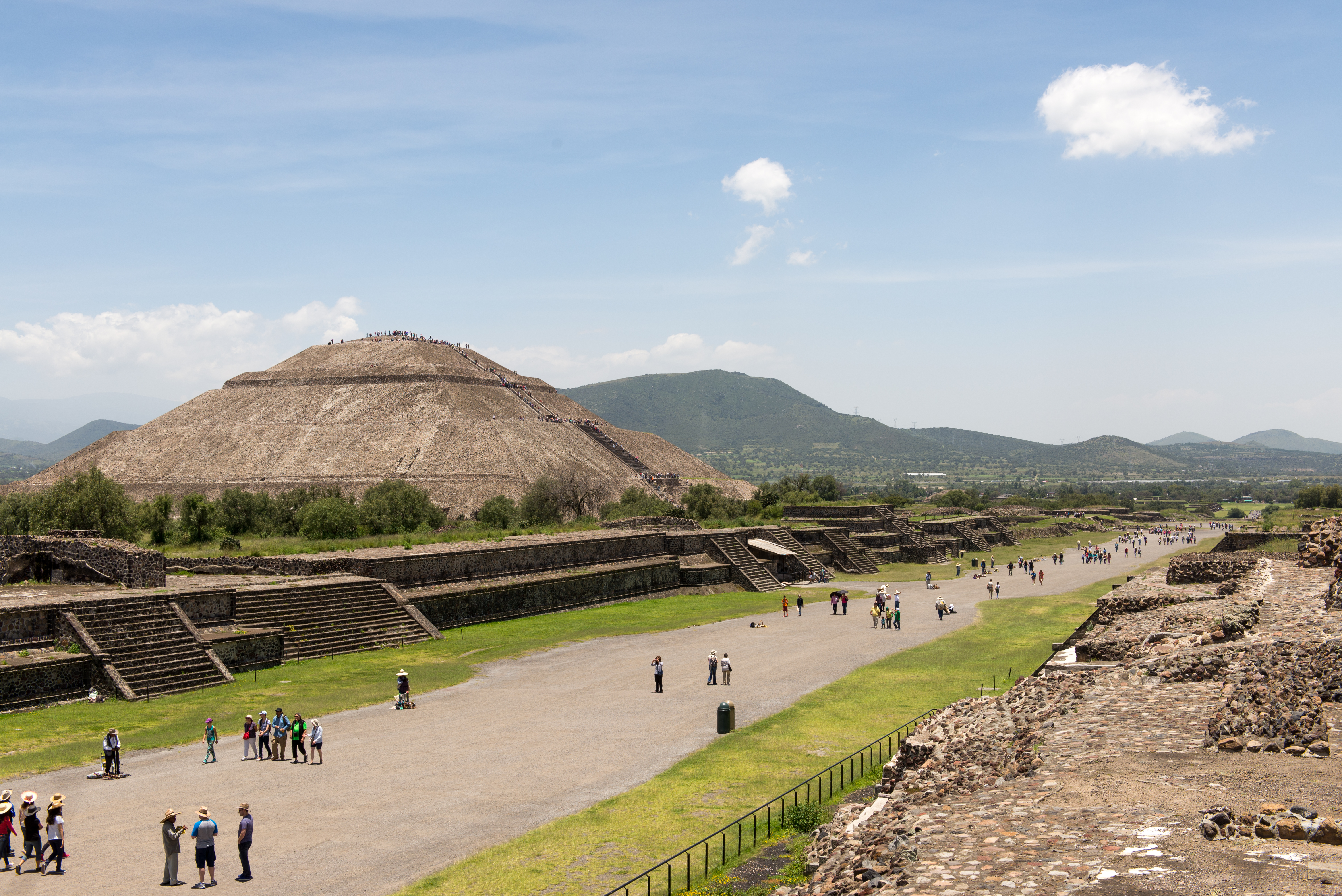 "Aztec city" Teotihuacán (Mexico), Avenue of the Dead and Pyramid of the Sun, a World Heritage Site by UNESCO